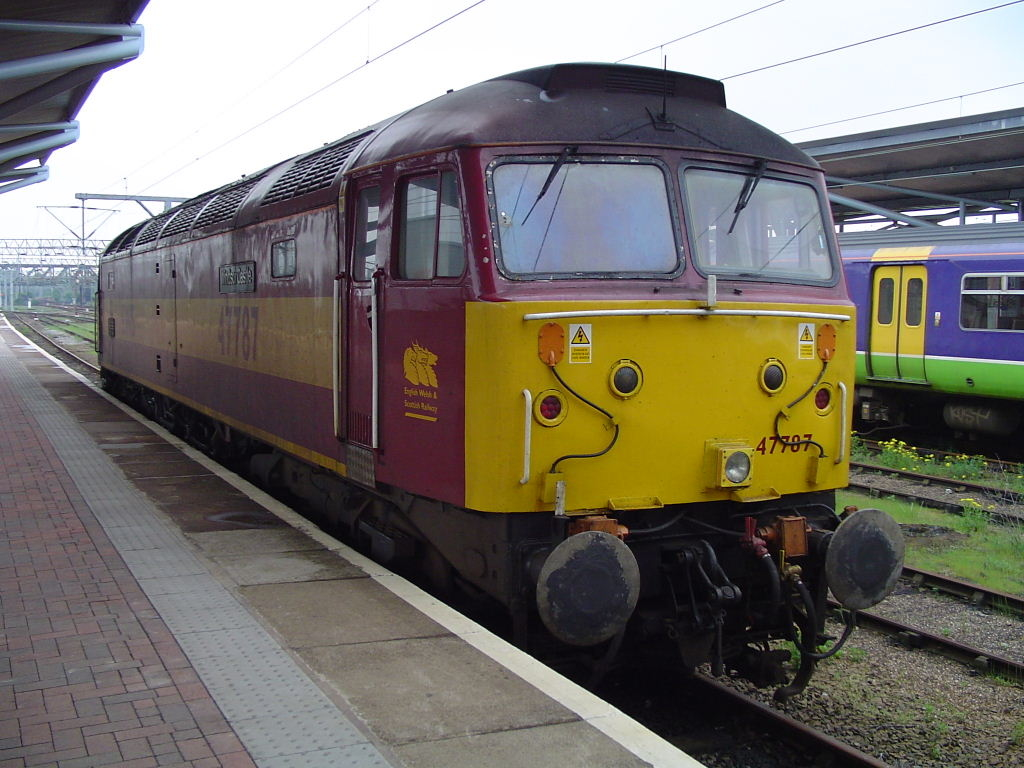 A British diesel locomotive class 47, No. 47787 standing at a platform in Rugby.